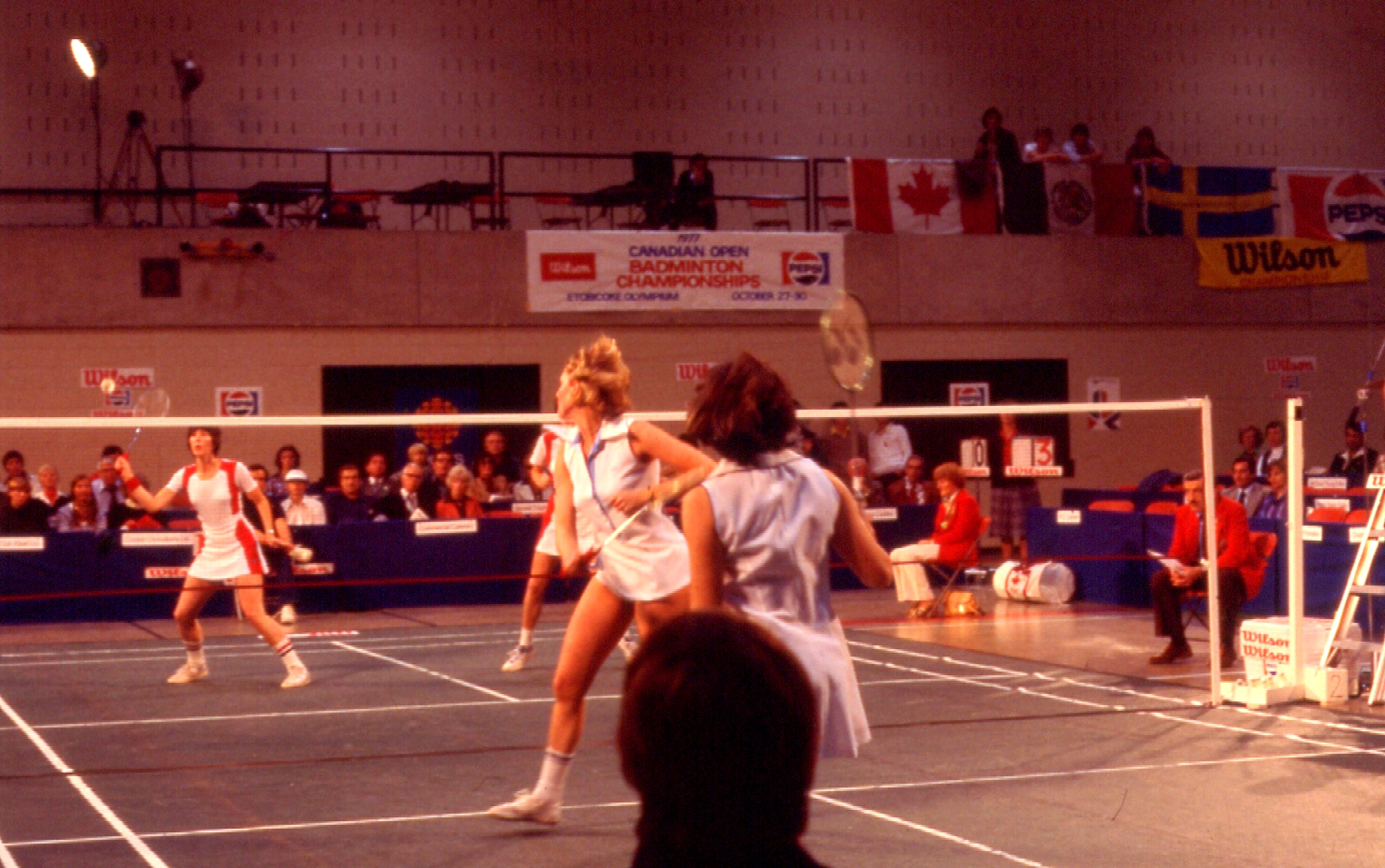 Nora Perry (front, left) and Karen Puttick (front, right) against Barbara Sutton and Jane Webster at Etobicoke Olympium.